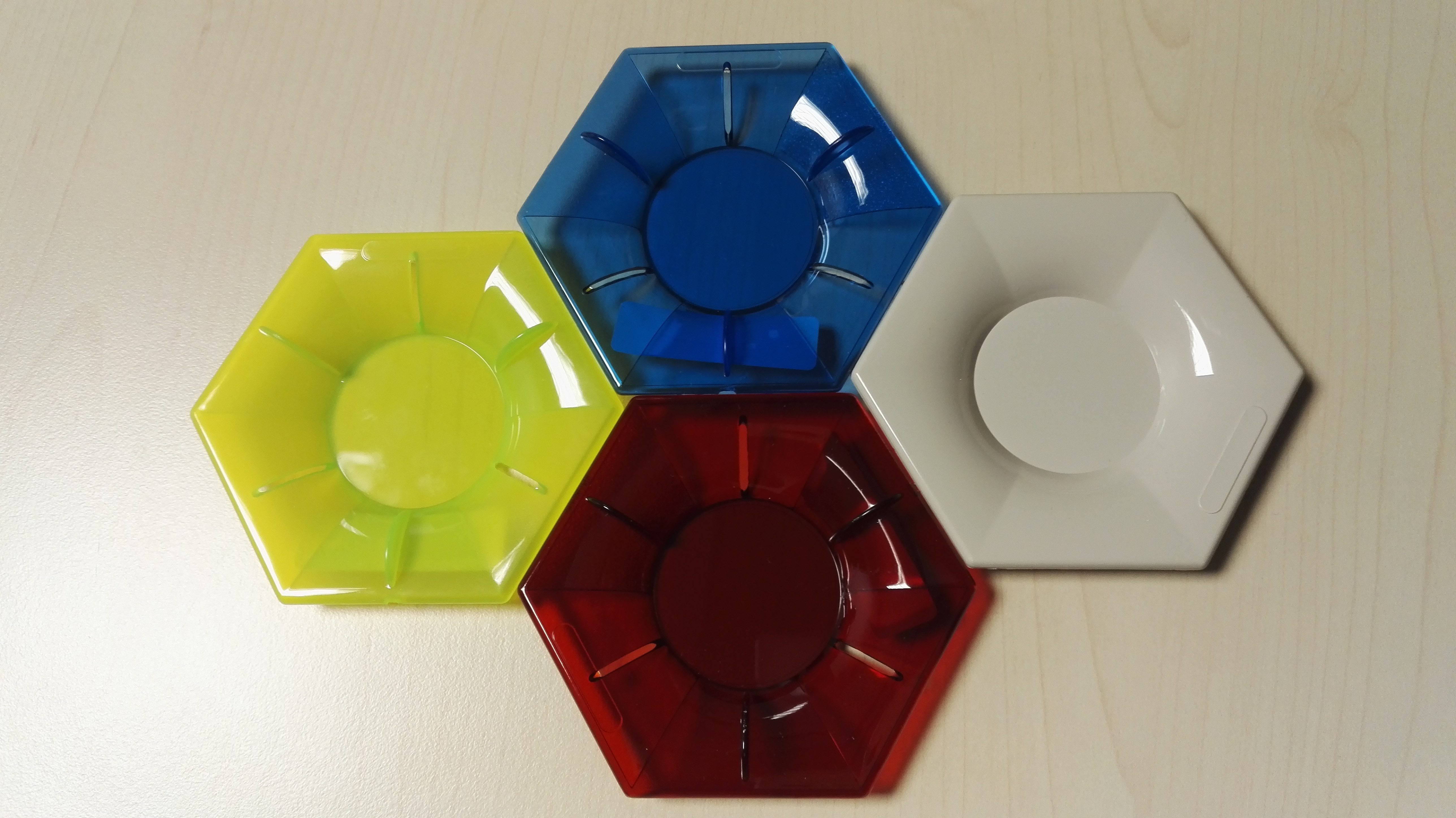 These are so called color chips, color samples made by plastic raw material manufacturers to showcase available colors of granules. Color chips make it possible to assess the physical apperance of the color after molding. They can be opaque, transparent, transluscent.